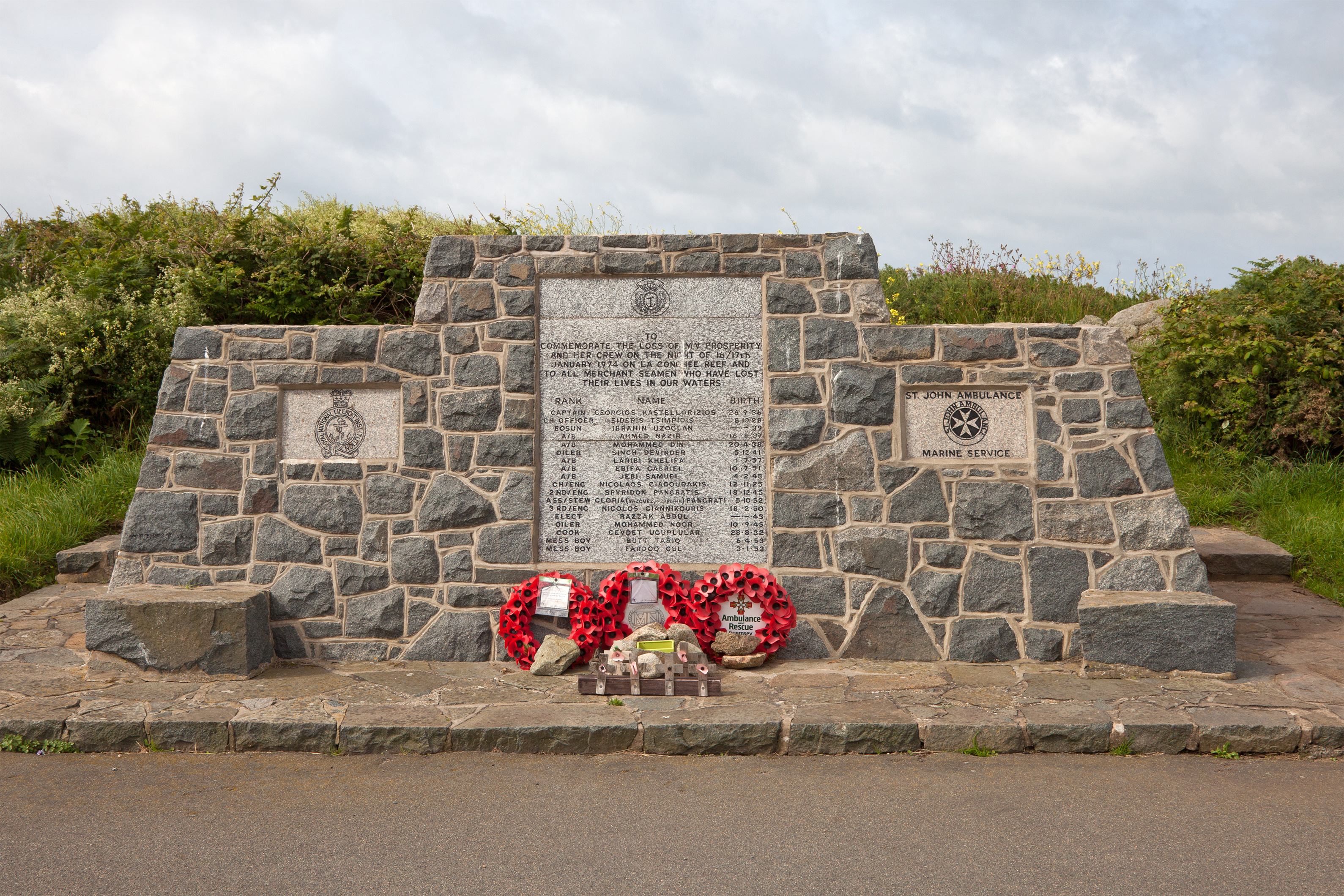 Monument to the loss of MV Prosperity on the night of 16/17th jan. 1974